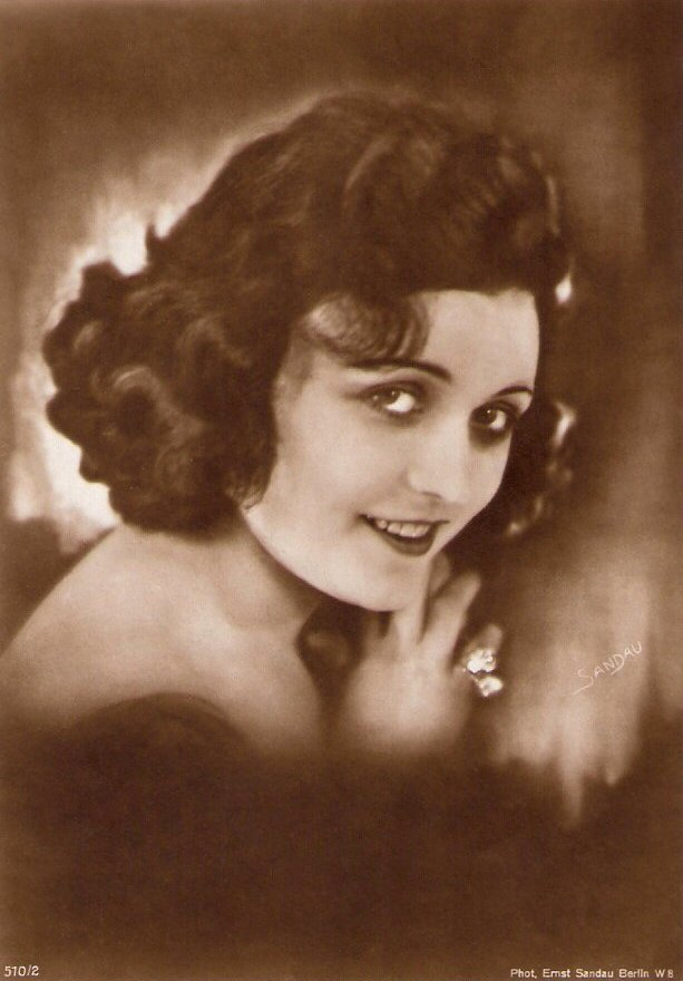 Pola Negri